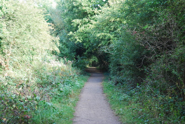 National Cycleway 12 by The Straight Mile The Straight Mile is the remains of a canal built in the 1820s - 30s to join Penshurst to the navigable part of the River Medway. It was never completed or ever used.